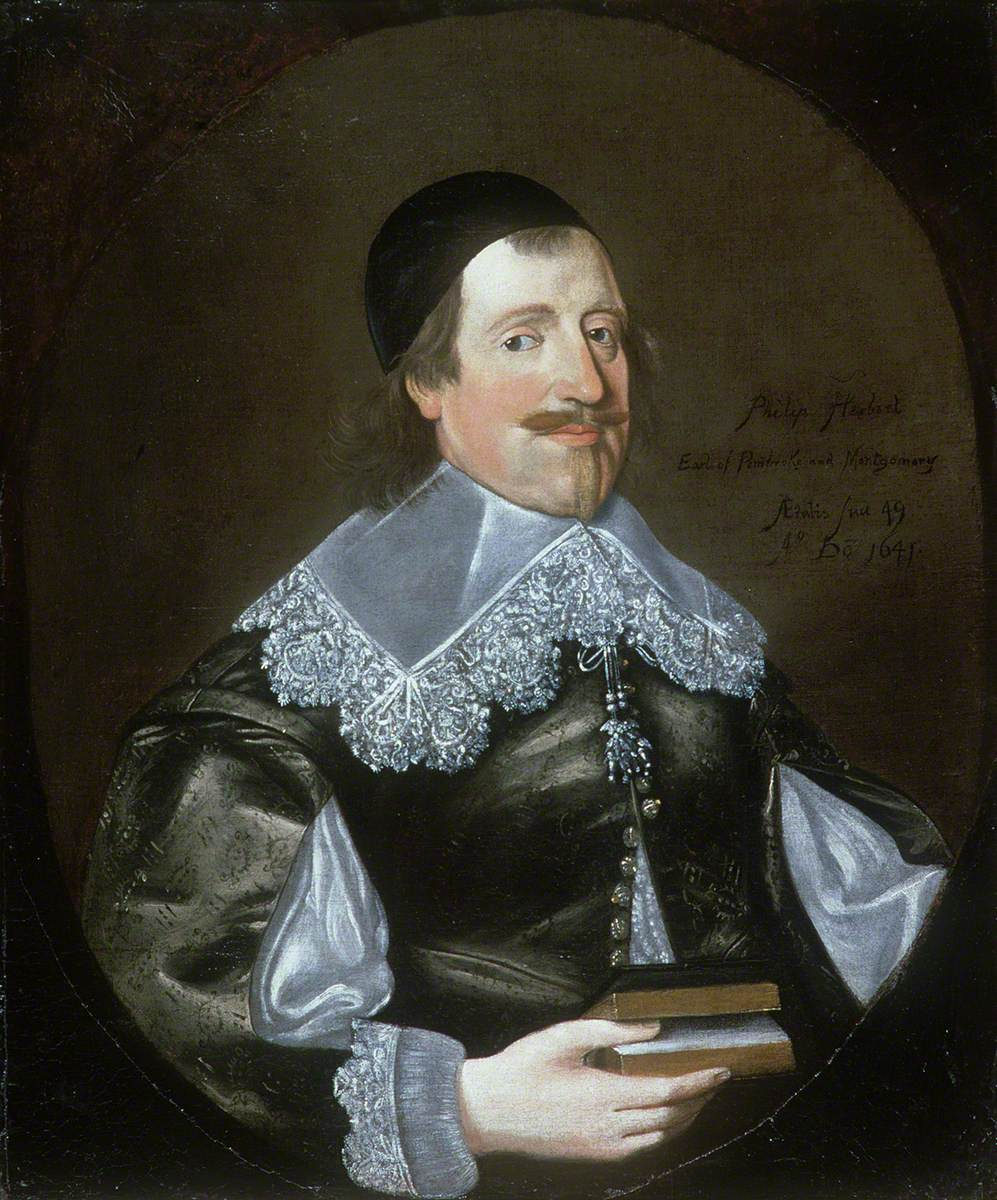 A painting from the Framed Works of Art collection at the National Library of wales.